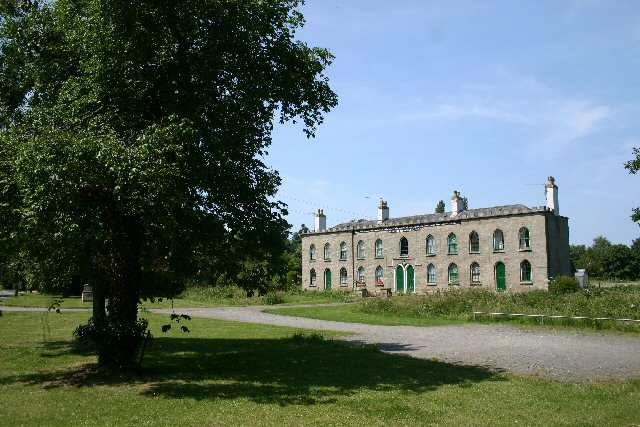 Alms Houses at Hawstead. An inscription, just below the roof line, reads: "These Alms Houses were erected and endowed, for the benefit of the Aged, and Deserving, Poor, Anno 1811, by Philip Metcalfe, Esq."